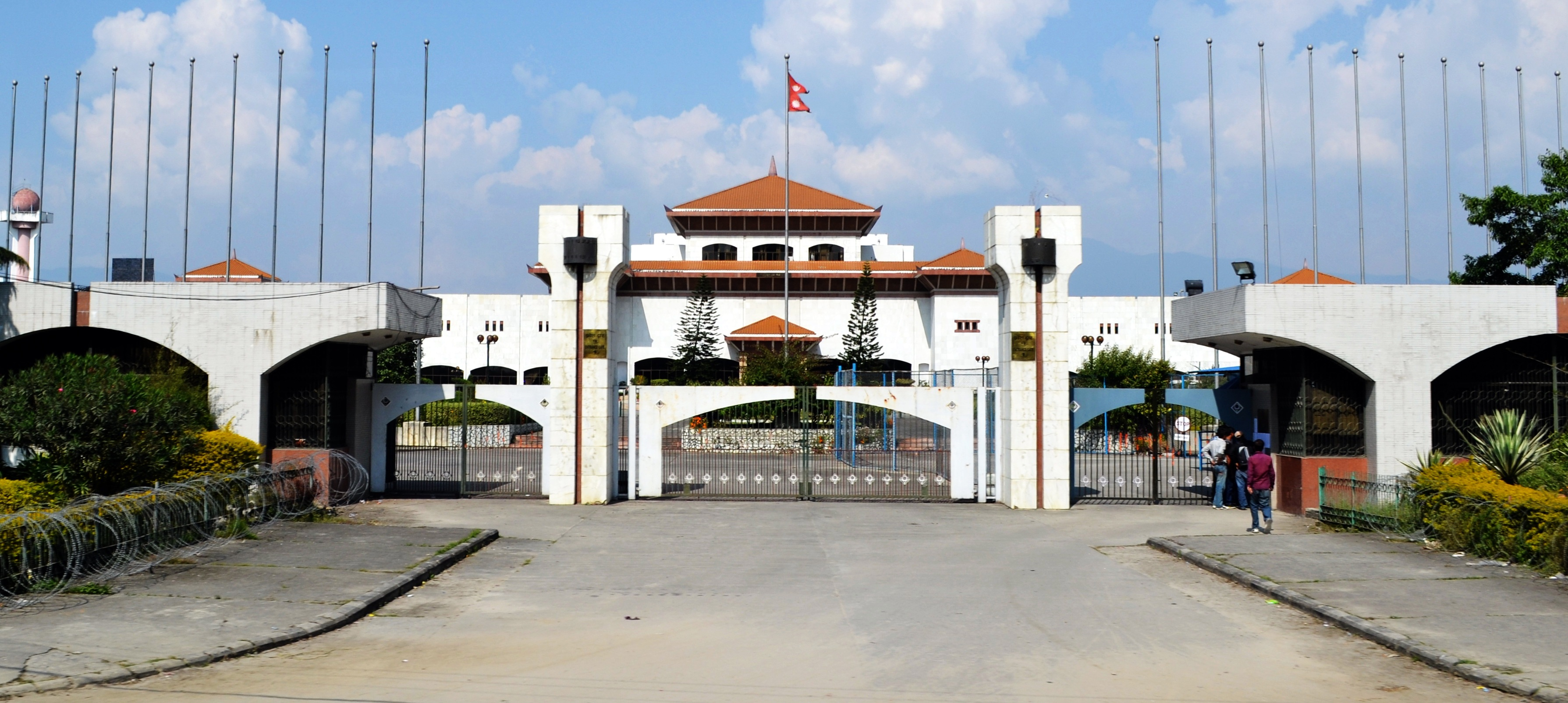 Birendra International Convention Centre, an international state of the art convention center in Nepal.